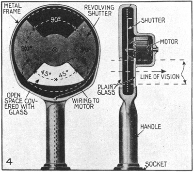 Internal details of the individual viewing devices used with the Teleview stereoscopic 3-D projection system, 1922